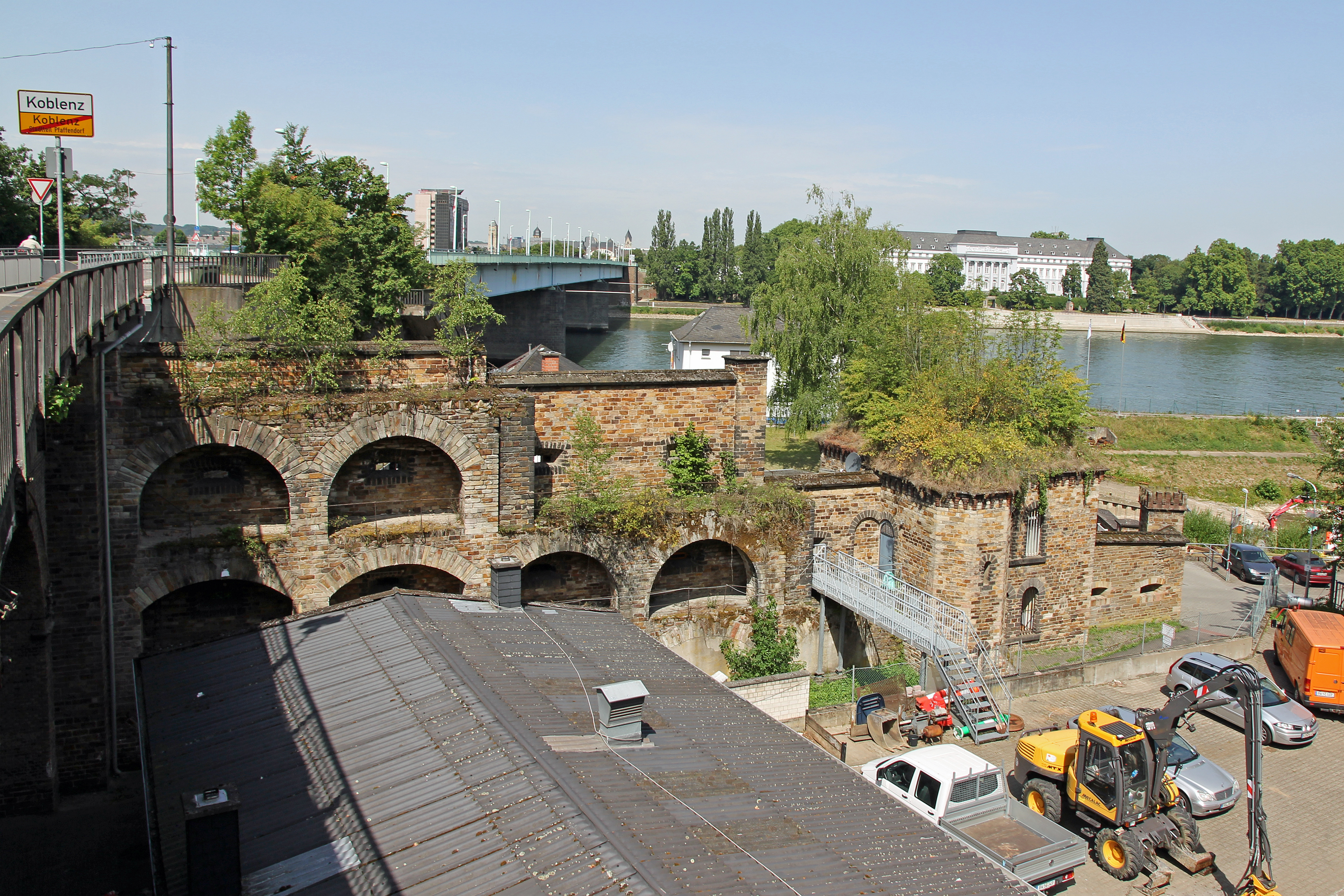 Horchheimer Torbefestigung in Koblenz